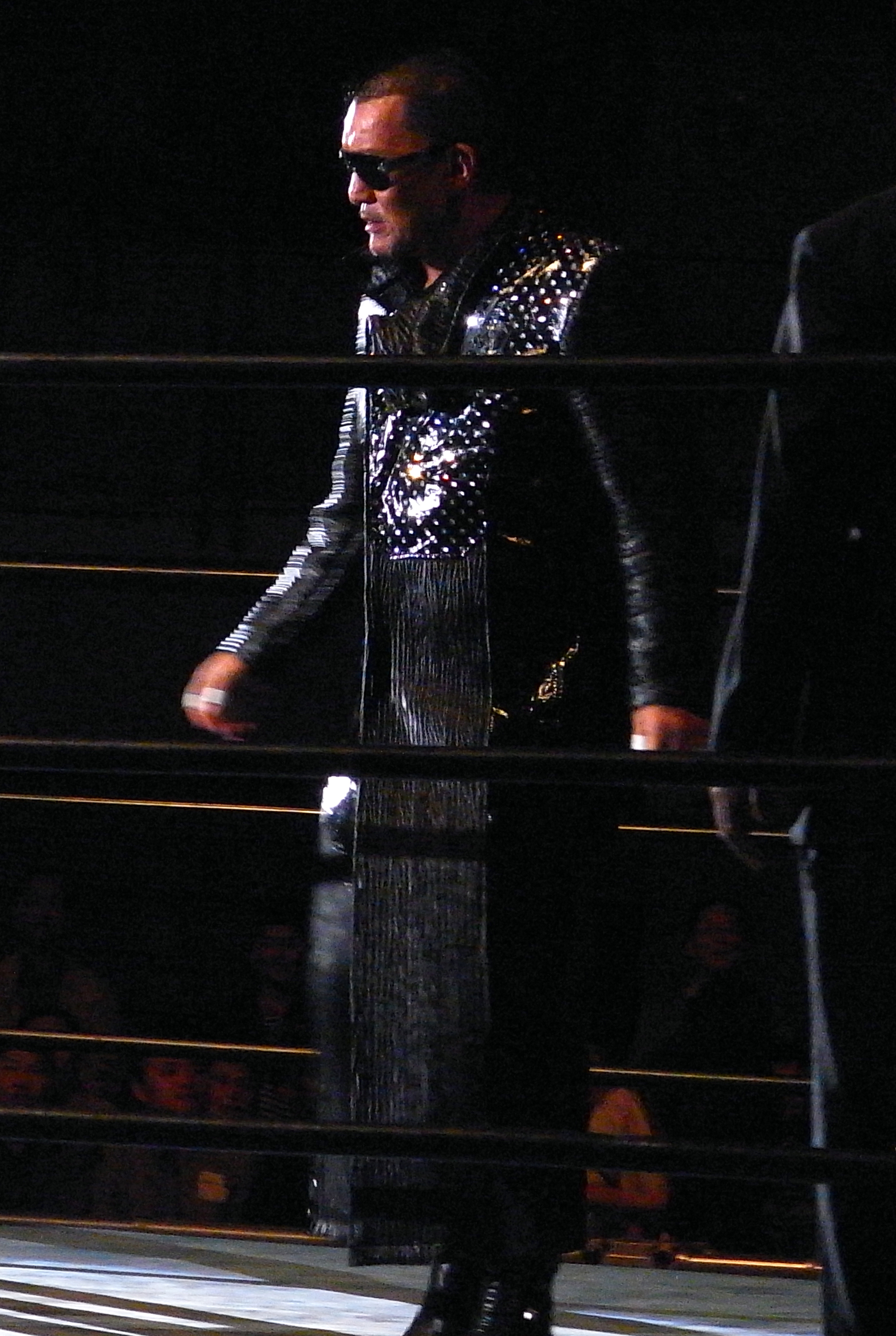 Masahiro Chono at AJPW "Pro-Wrestling Love in Taiwan 2010", the National Taiwan University Gymnasium, Taipei.